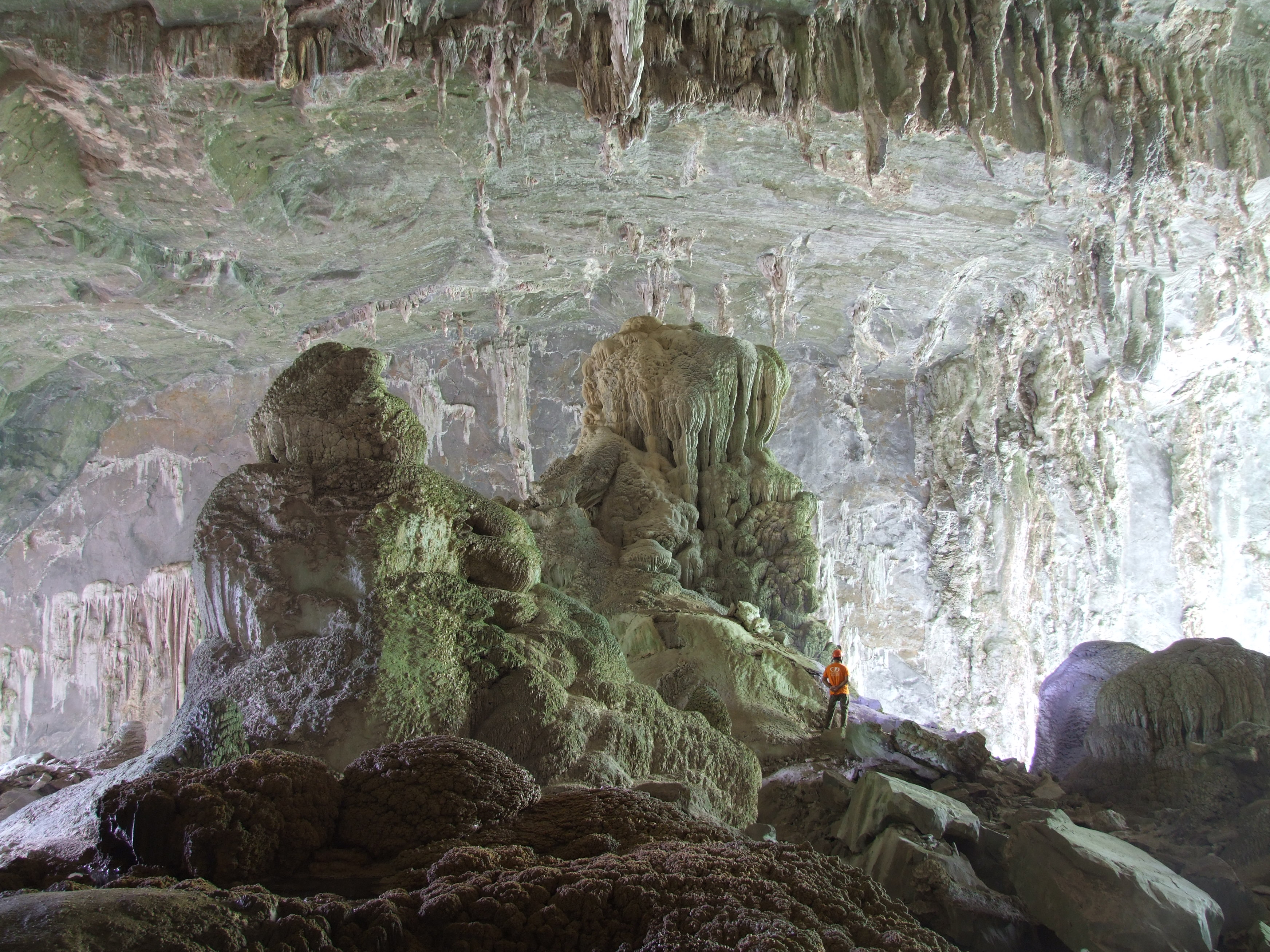 Tourist State Park of Alto Ribeira (PETAR) BRAZIL